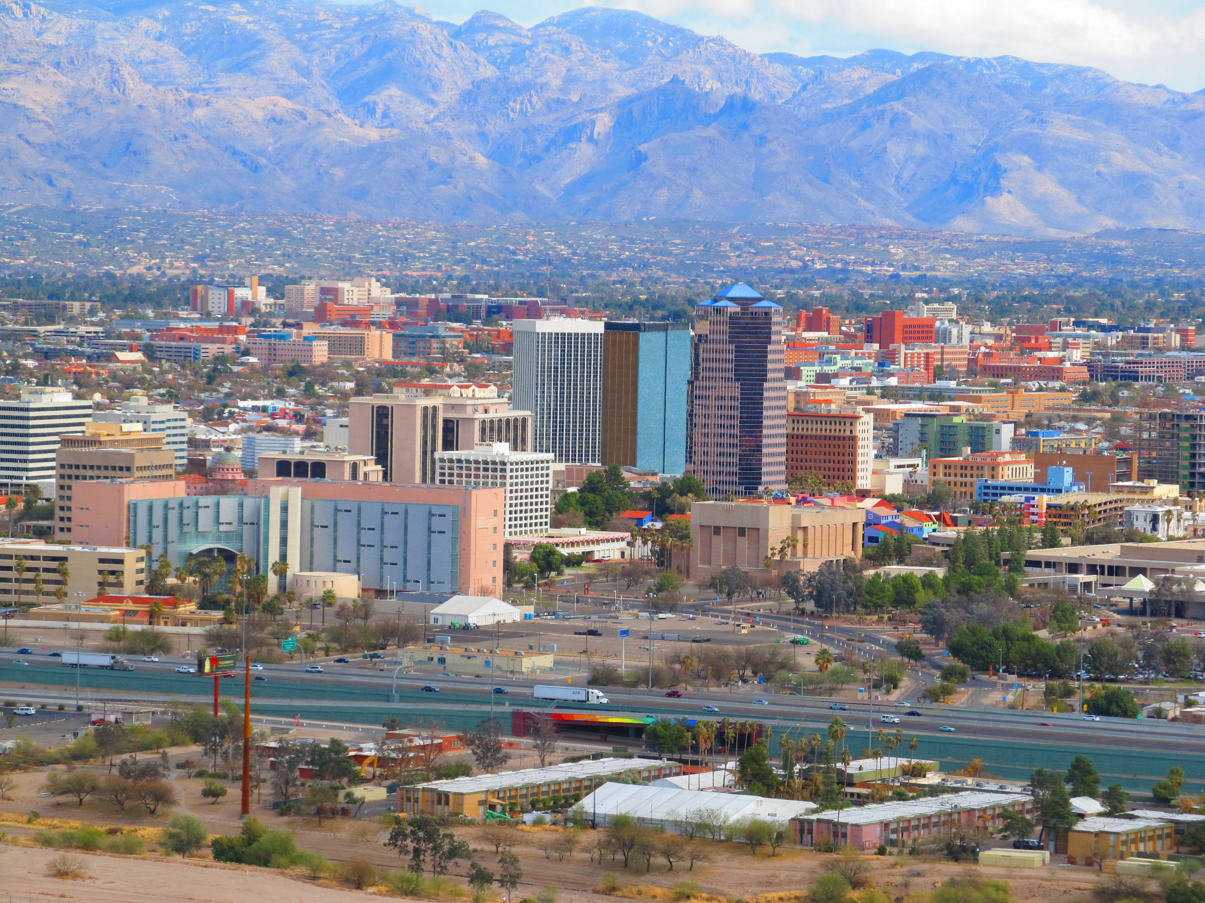 Downtown Tucson, Arizona taken from Sentinel Peak.